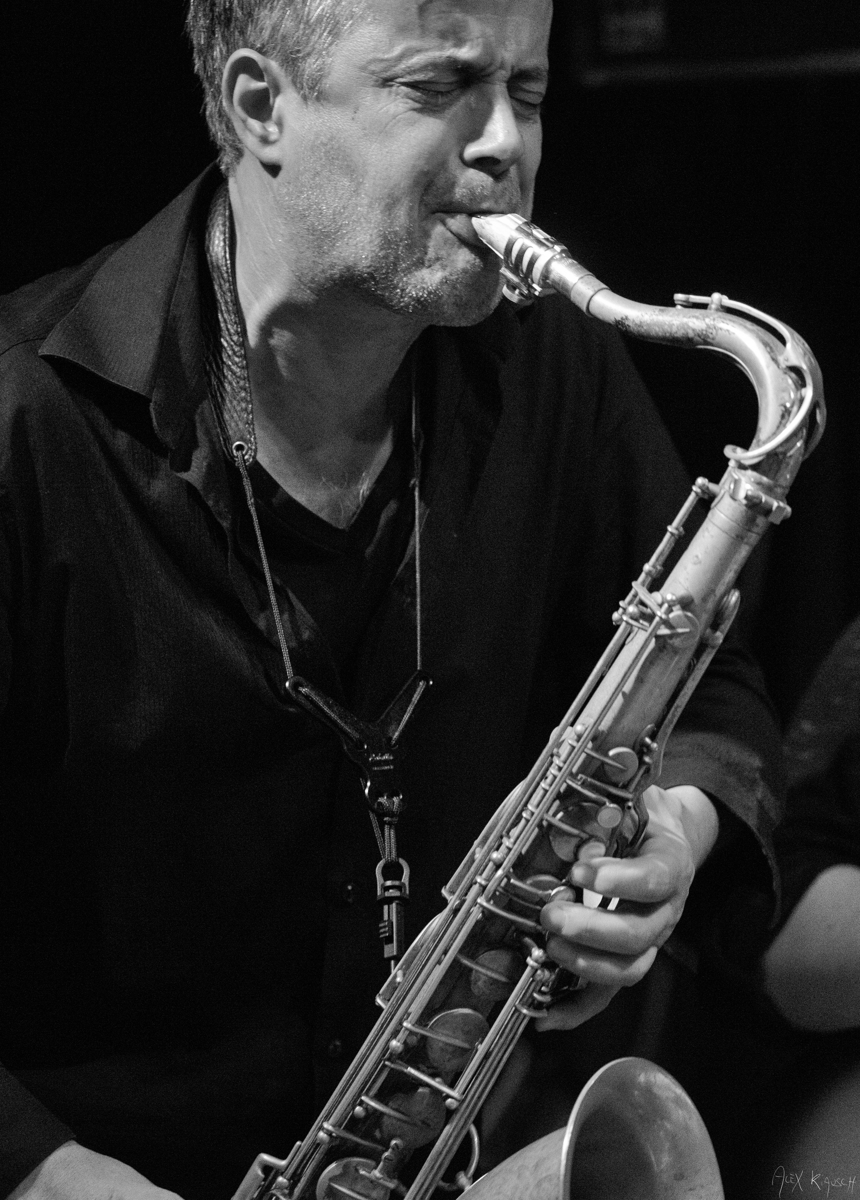 Gabriel Coburger plays at Turmzimmer, Hamburg 2019 at the Fatjazz-Urban-Exchange